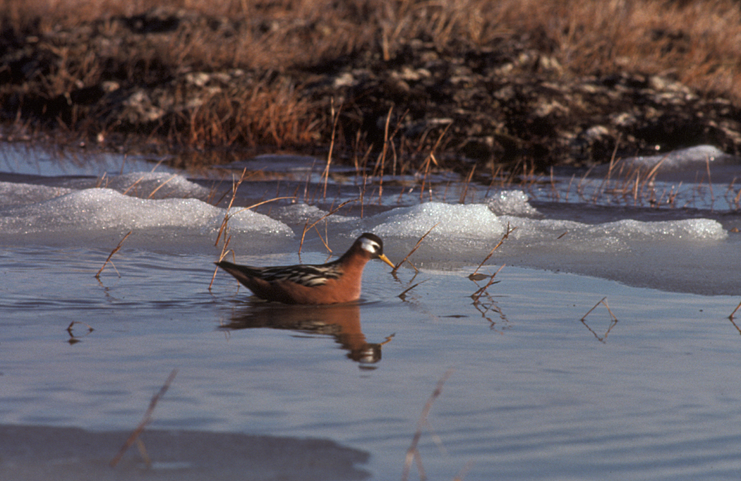 Red Phalarope (Phalaropus fulicarius)